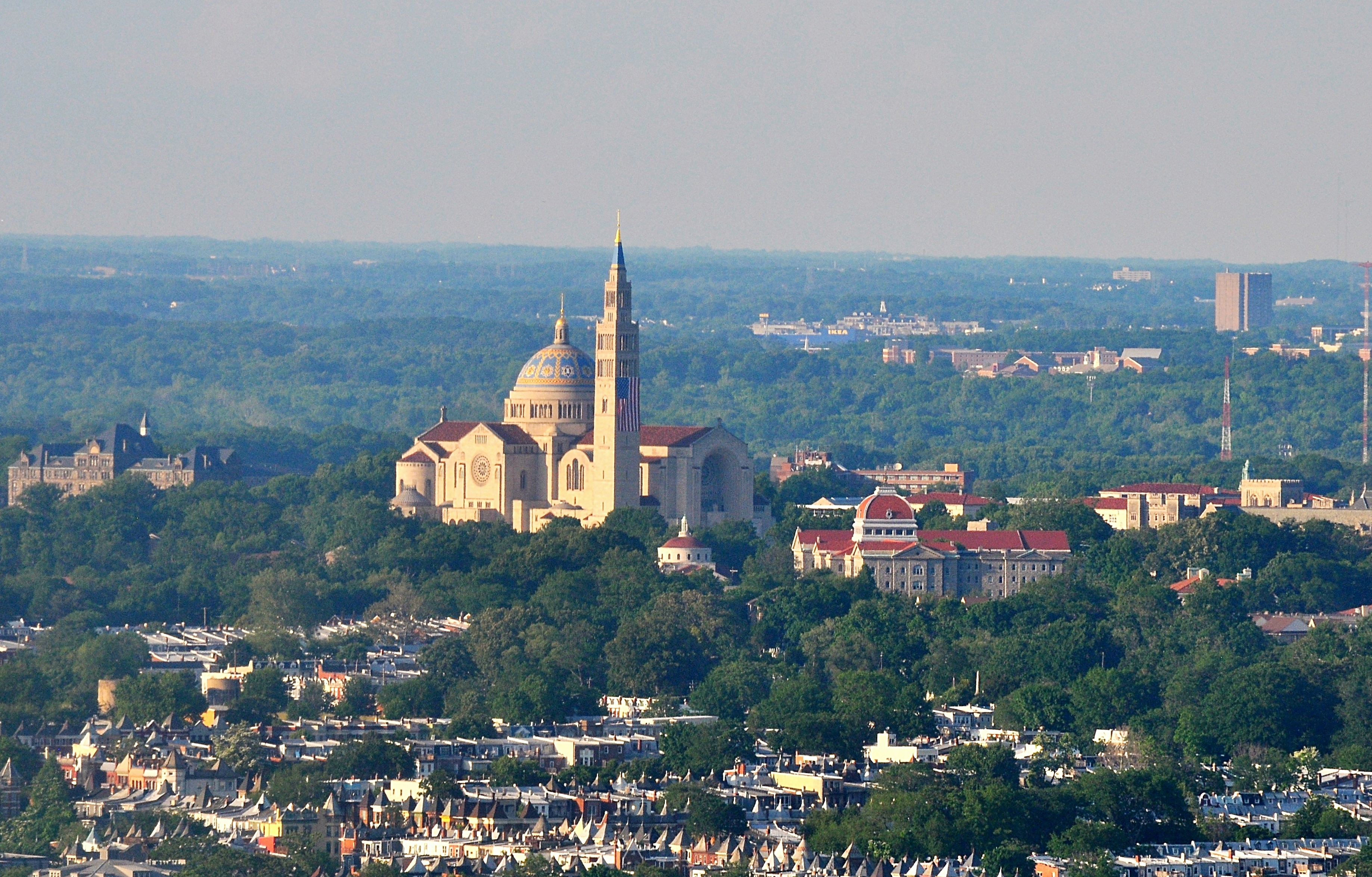 Basilica of the National Shrine of the Immaculate Conception from atop Washington Monument